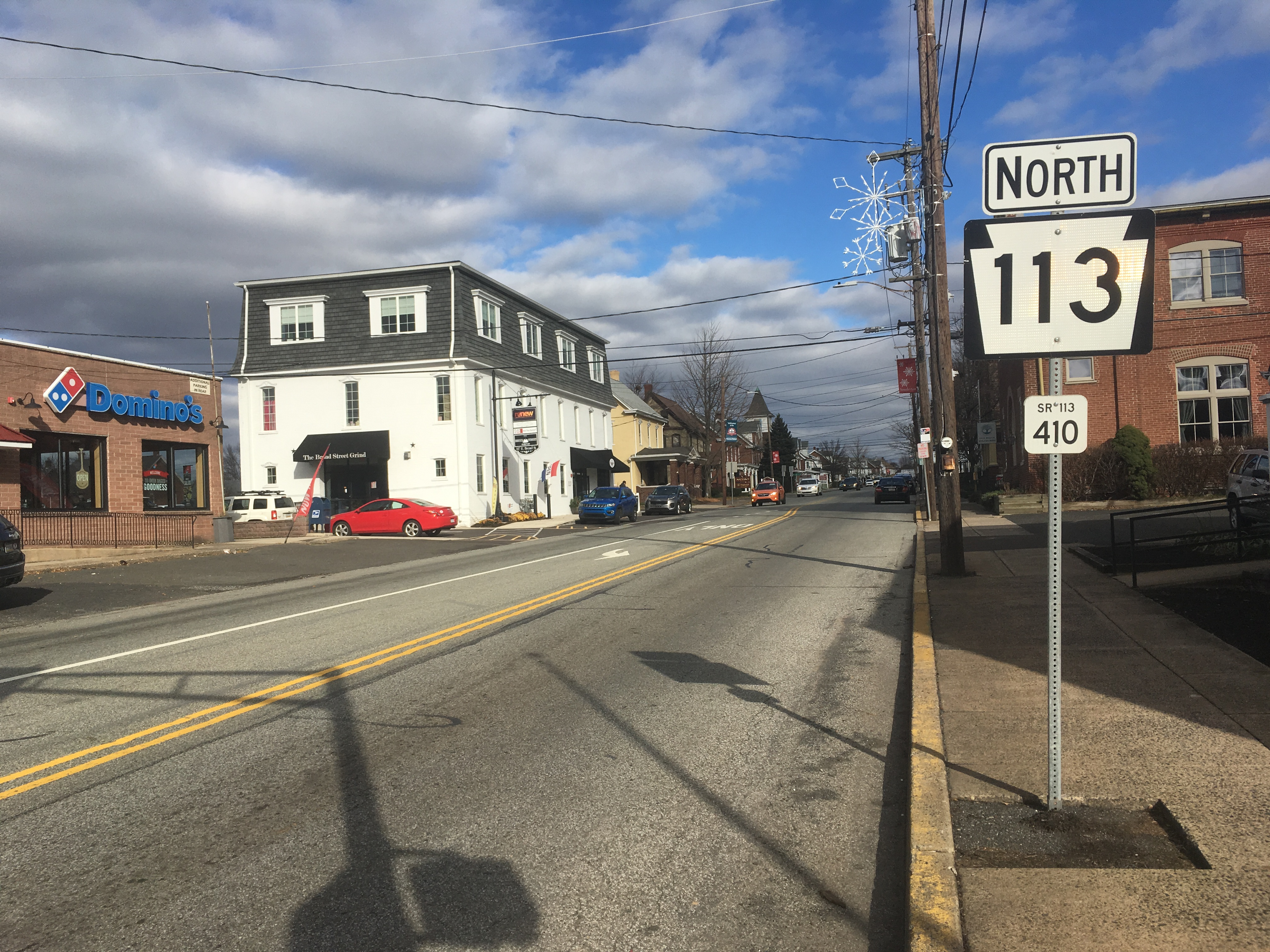 Northbound Pennsylvania Route 113 (Broad Street) past the intersection with Front Street in Souderton, Pennsylvania